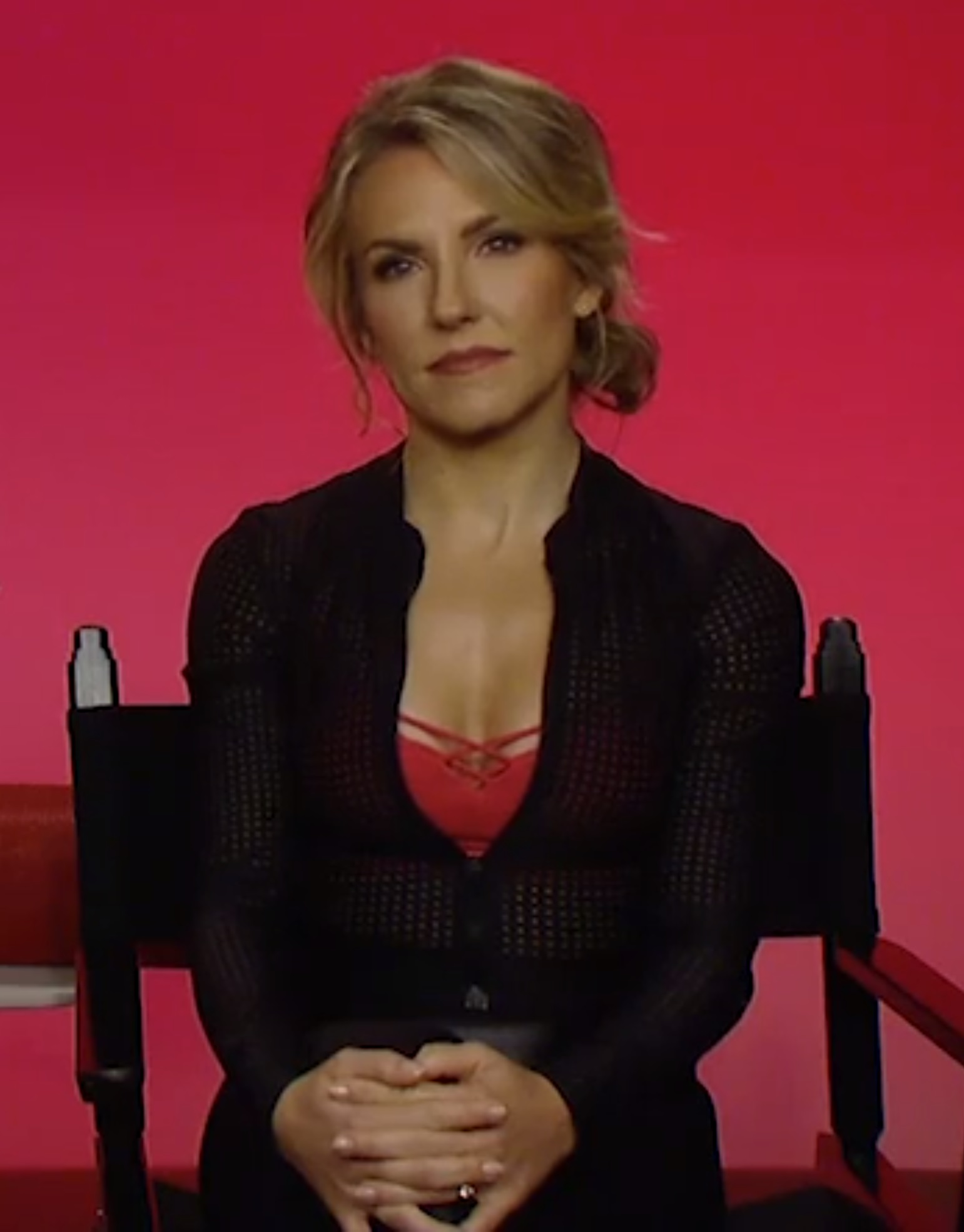 American personal trainer Anna Kaiser speaks about Lilly's Thriver Movement, part of More For MBC initiative for metastatic breast cancer.